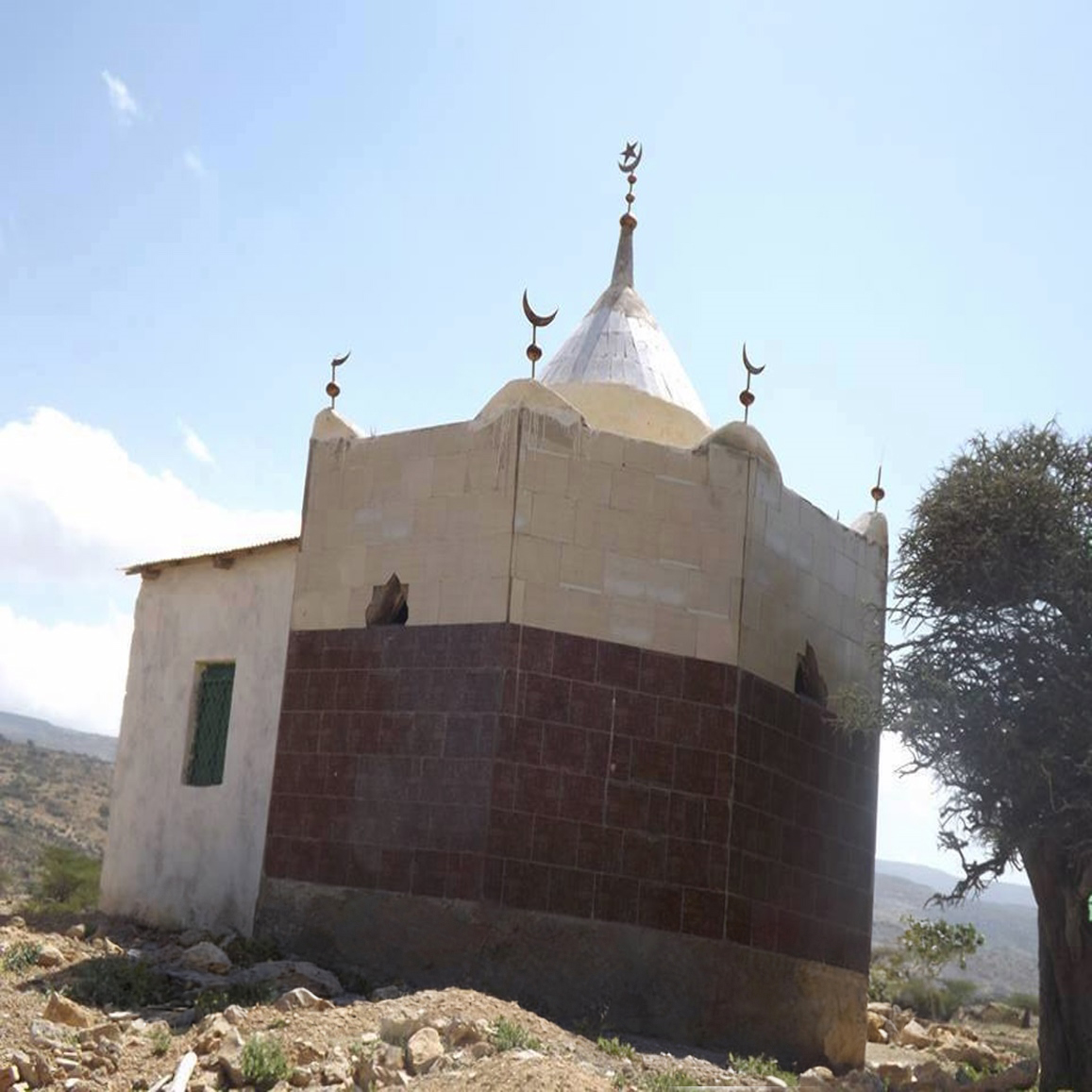 The Tomb of Sheikh Samaroon of the Gadabursi Somali clan. It lies in the Sanaag region.